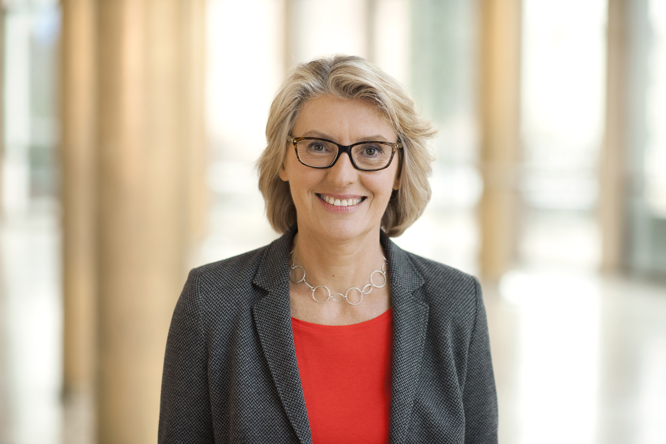 Gabriele Holzner, TV Director of public broadcaster Hessischer Rundfunk